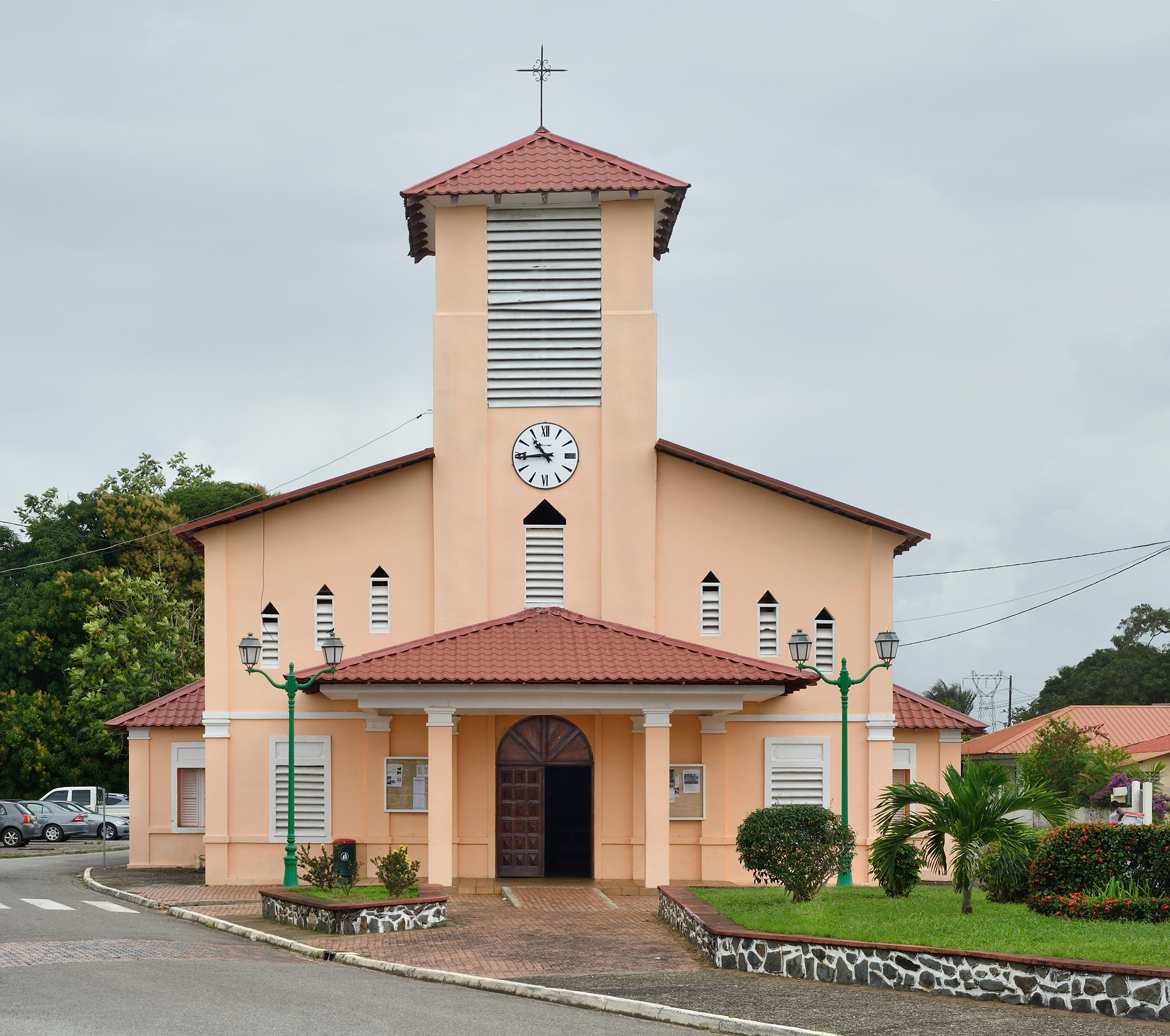 Church at Macouria, French Guiana.